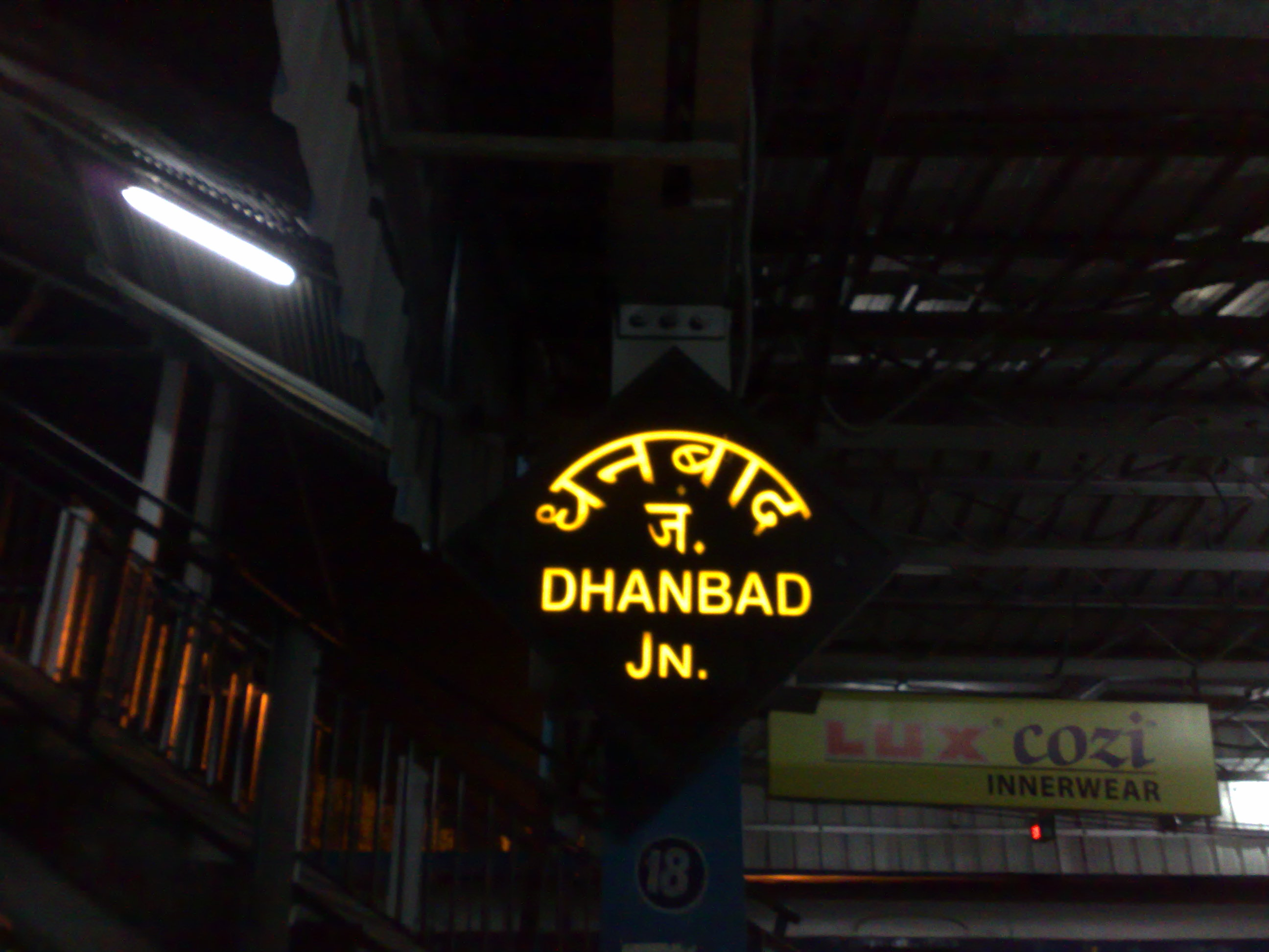 Dhanbad Junction platformboard